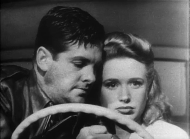 Robert Cummings and Priscilla Lane in the trailer of the film Saboteur (1942).